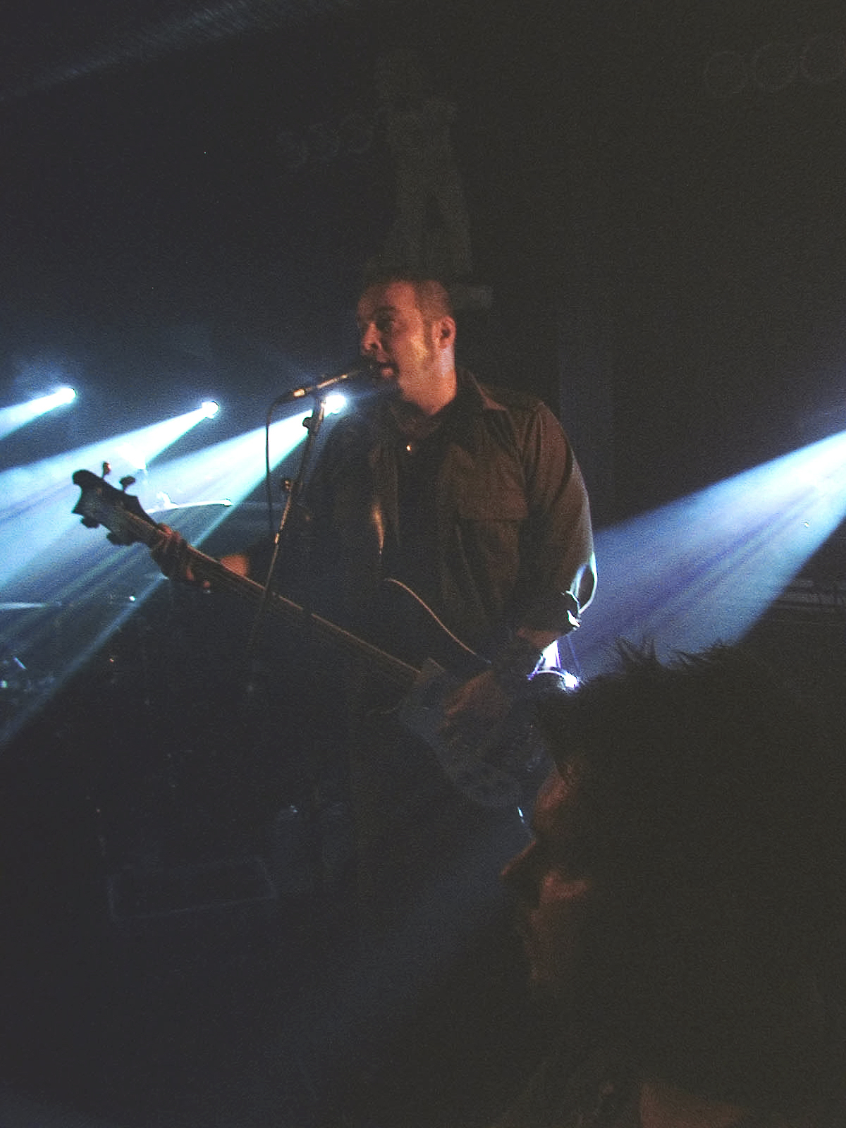 A. W. Yrjänä, singer/bassist of finnish rock band CMX. Taken on August 16th 2006 in Happytime Pub in Savonlinna, Finland.